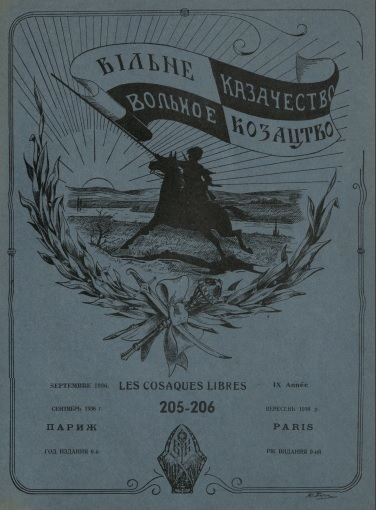 Журнал "Вольное казачество" - №205-206 - Париж -1936 г.